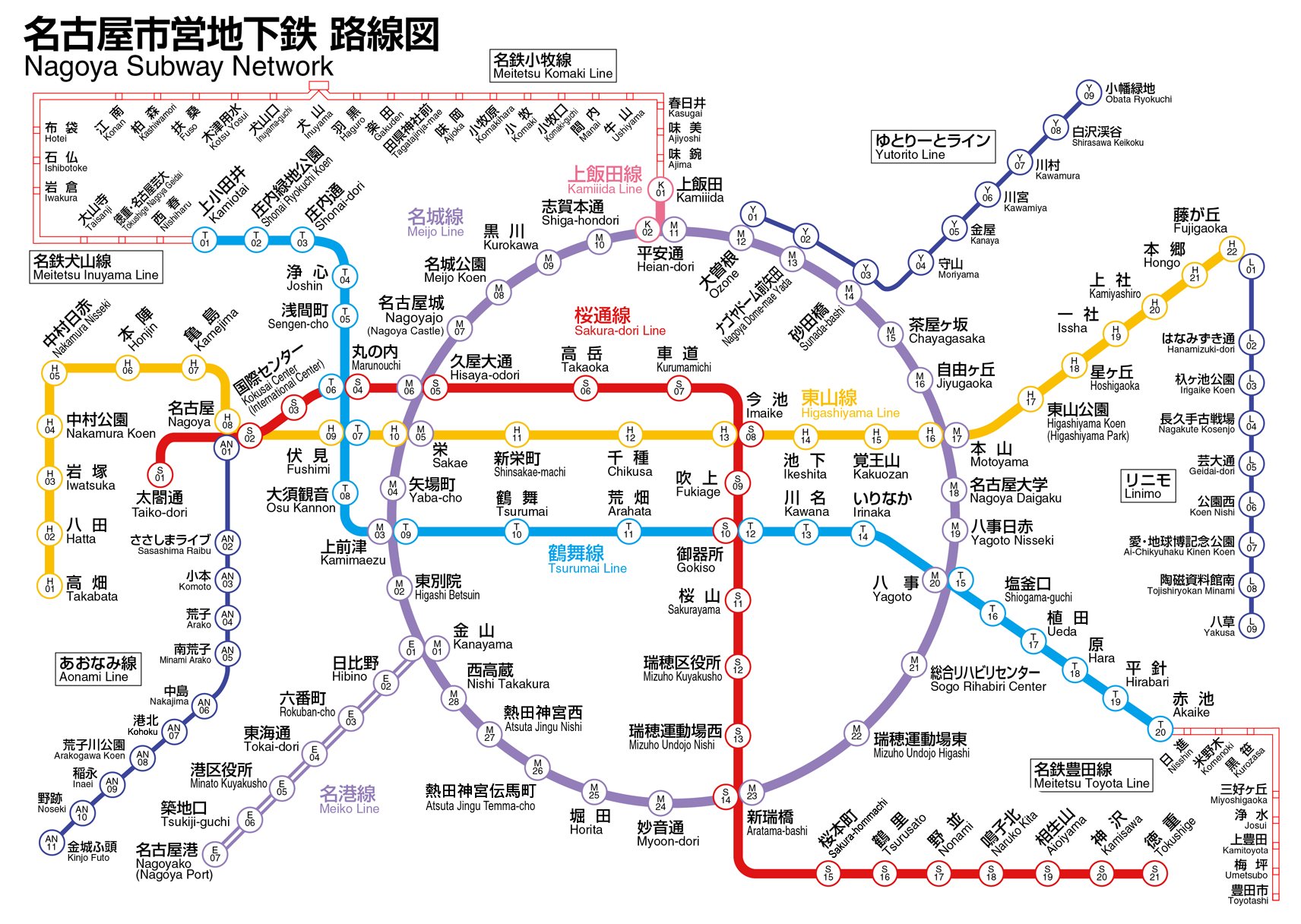 名古屋市営地下鉄路線図 (Map of Nagoya City Subway)